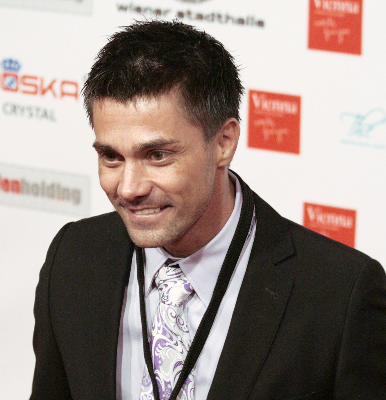 Presenter Andreas Seidl at the Women's World Award 2009 (Wiener Stadthalle, Vienna, Austria).